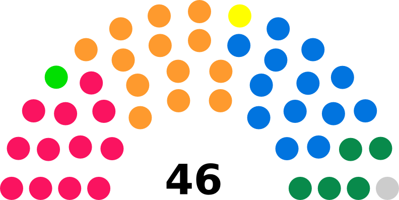 Seats diagramme of Swiss Council of States (2015)